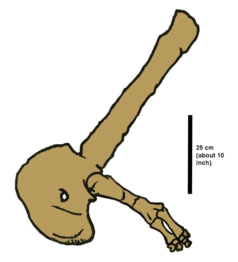 Diagram of the theropod dinosaur Aucasaurus garridoi's forelimbs